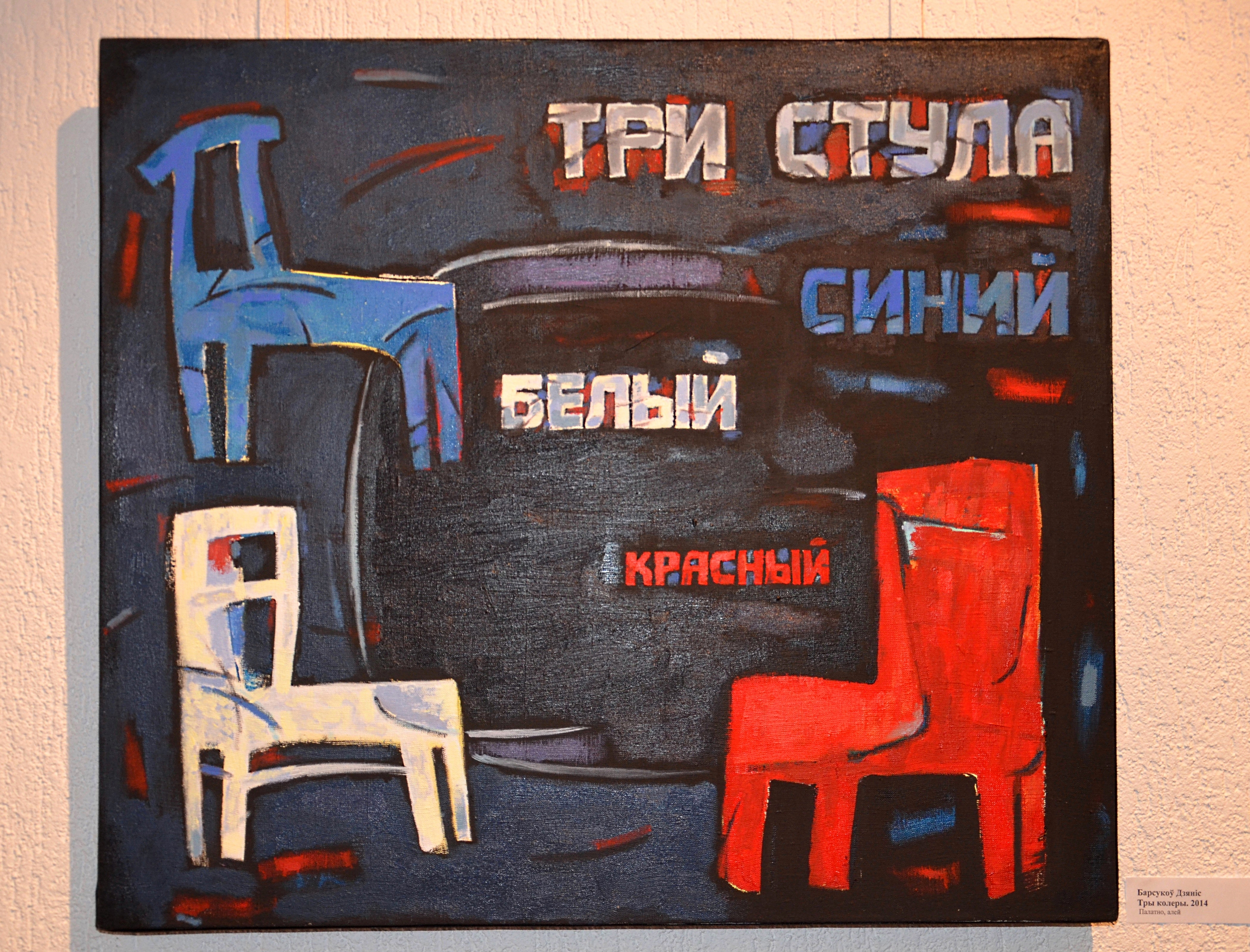 Belarusian artist Denis Barsukov. «Three Colors», 2014. Oil on canvas.